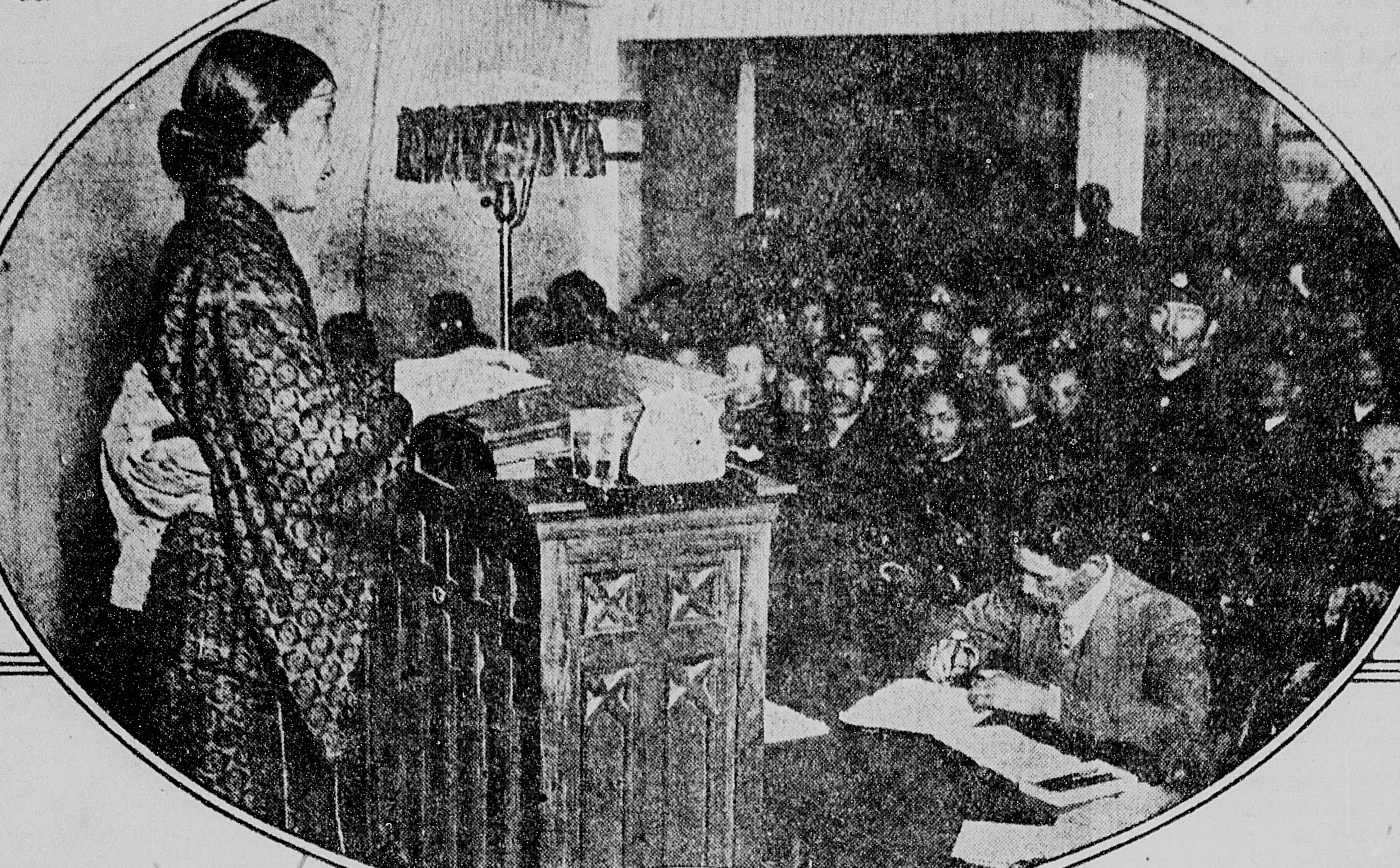 Original caption: Miss Fusako Kutsunai, denouncing capitalism as the enemy of Japanese women. (Although the original description uses a different name, I believe that could be a typo and this might be Fusako Kutsumi of Sekirankai.)